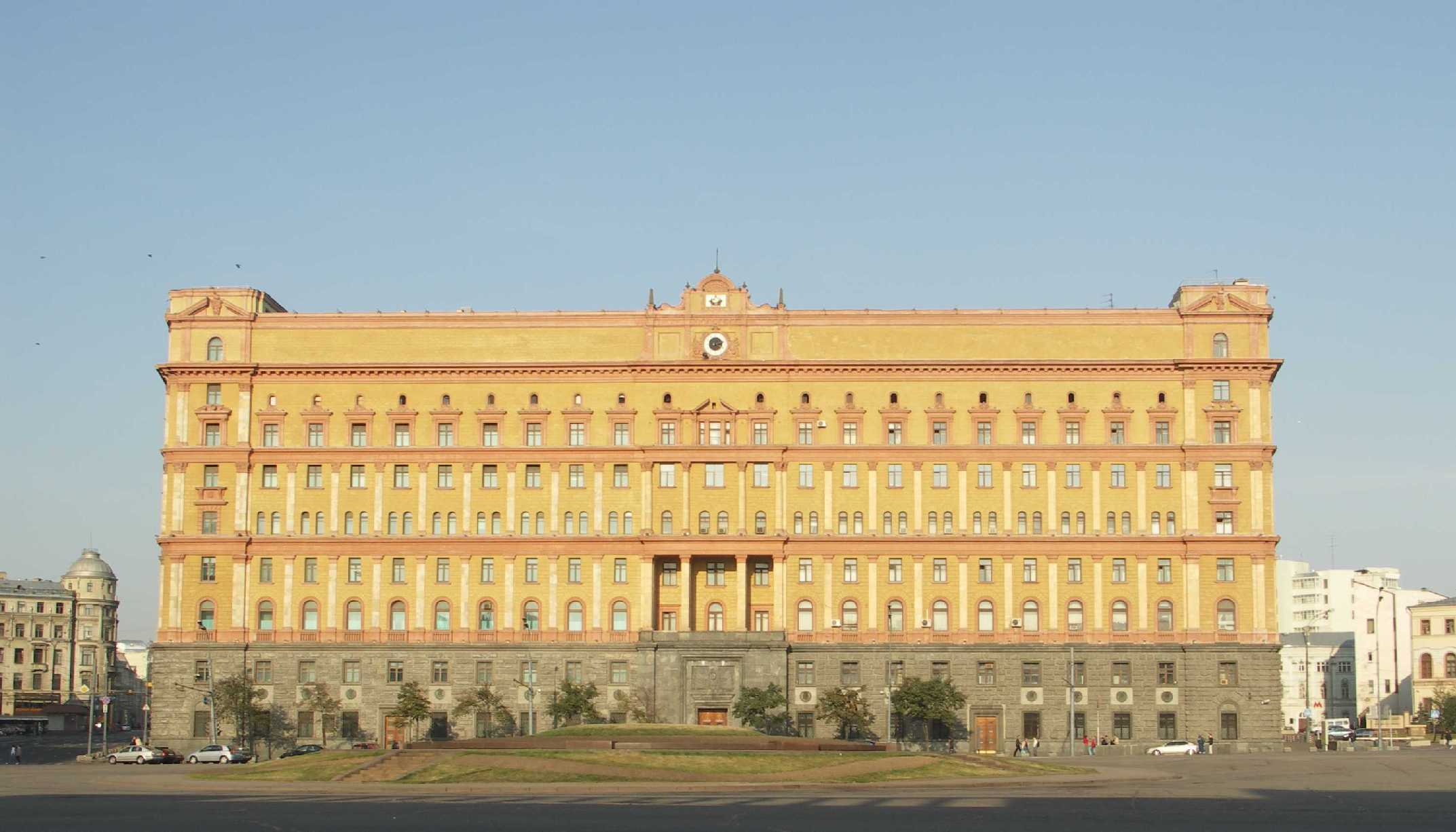 Lubyanka KGB Headquarters in Moscow